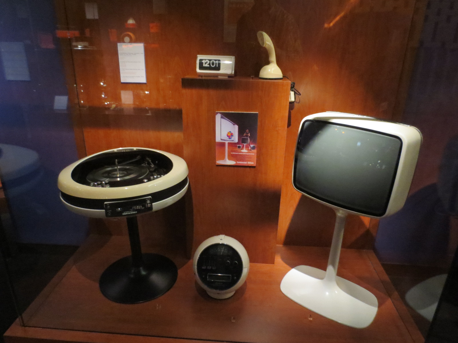 1970s European 'designer pieces' by Ericsson (Ericofon telephone, top), Weltron (record changer, left and an 8-track player, bottom), Continental Edison (TV, right). The whole 'space age' design theme was a recurring fad that never catched up with mass buyers. Very few brands and manufactures (e.g. Braun and Brionvega) managed to capitalize on design aesthetics. More examples here